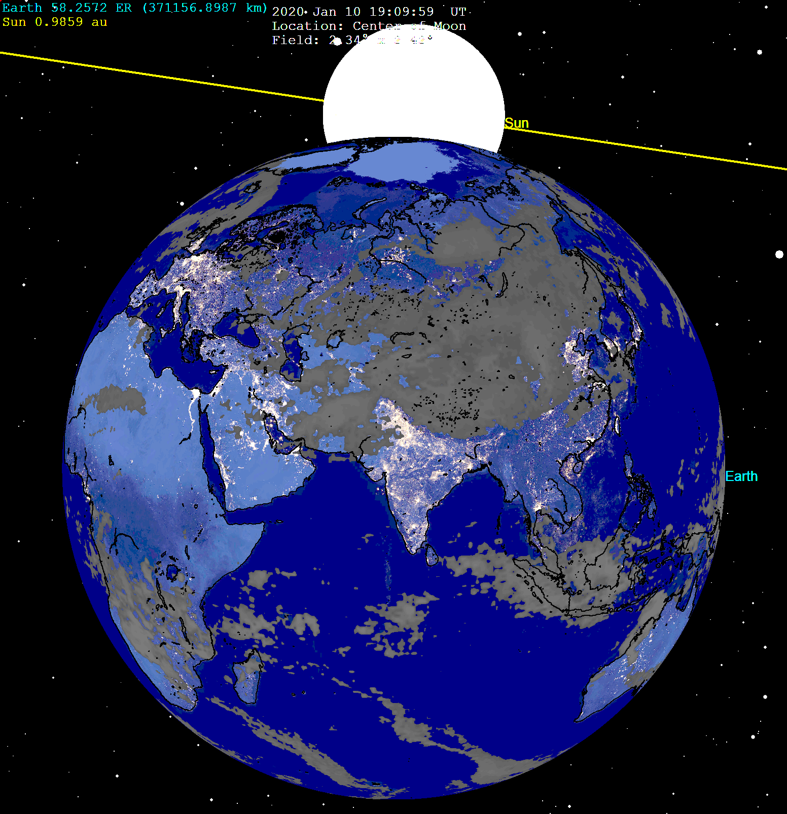 January 2020_lunar_eclipse view of earth The orientation of the earth as viewed from the center of the moon during greatest eclipse. thumb